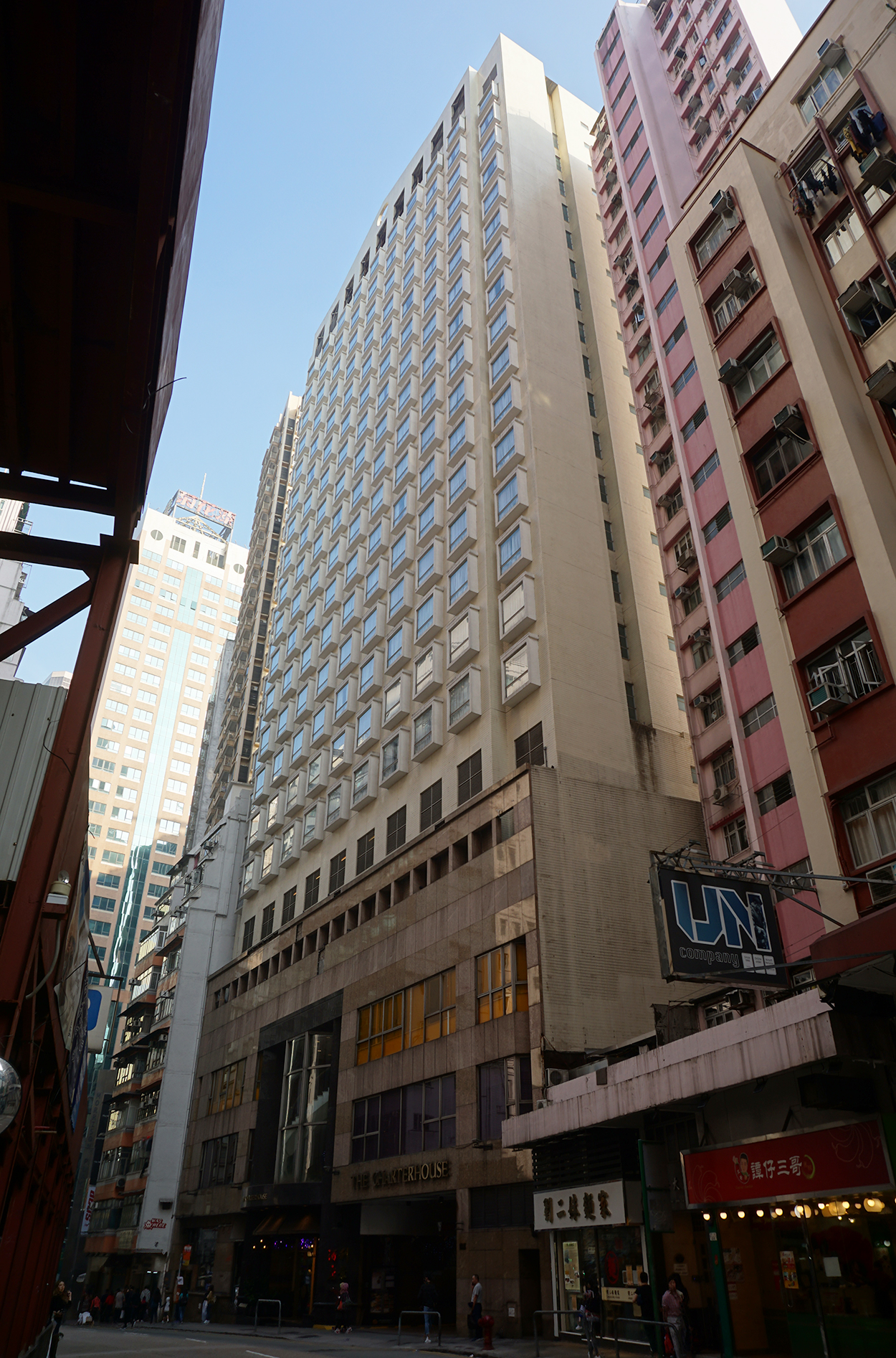 The Charterhouse in Wan Chai, Hong Kong.